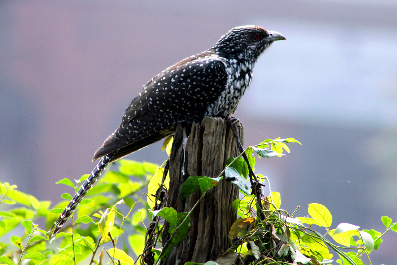 This is a image of Female Asian Koel (commonly known as "Kokeel" in Bengali), captured from Curzon Hall, University of Dhaka in Bangladesh.